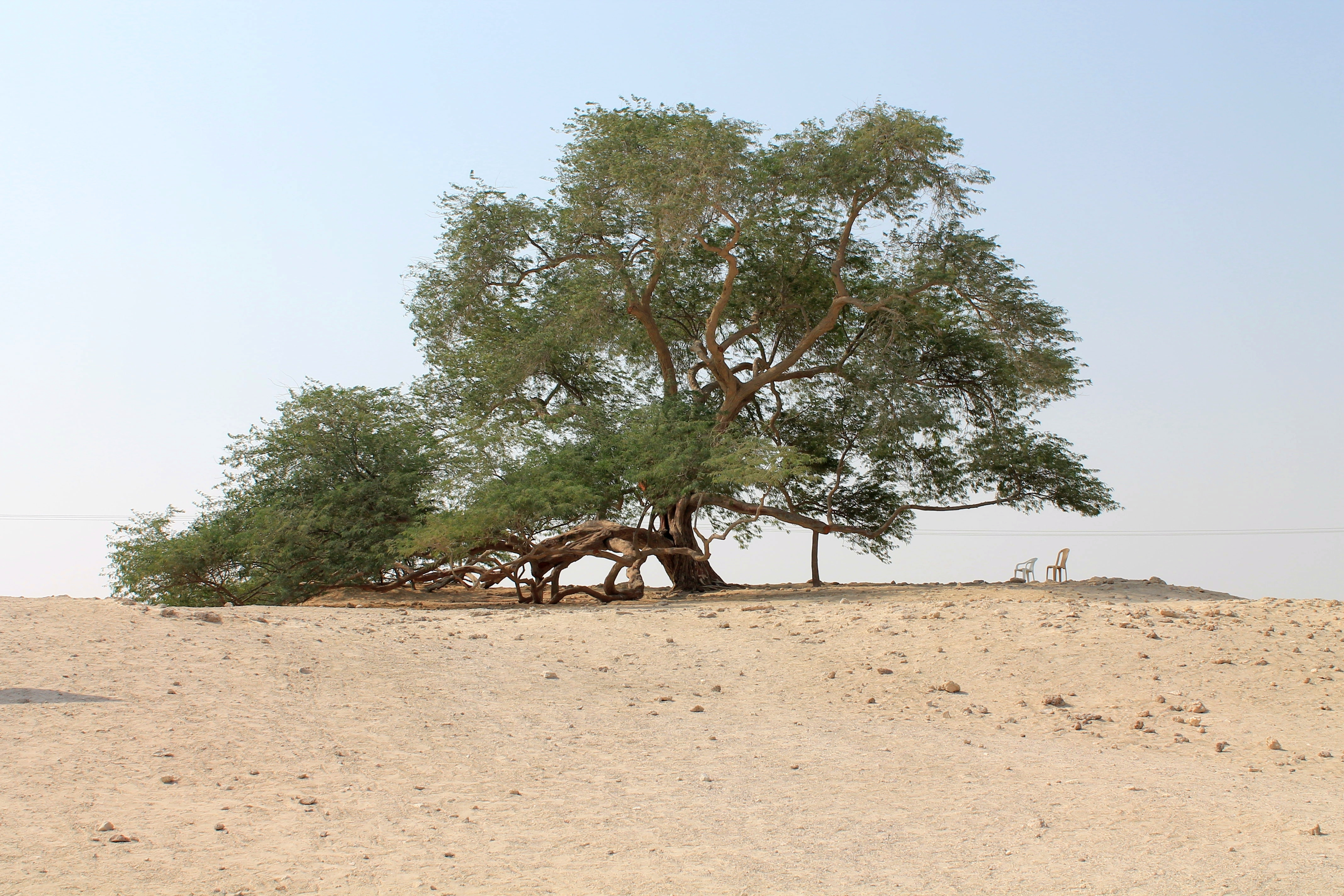 Tree of Life, Bahrain in 2012, taken during a visit to the tree